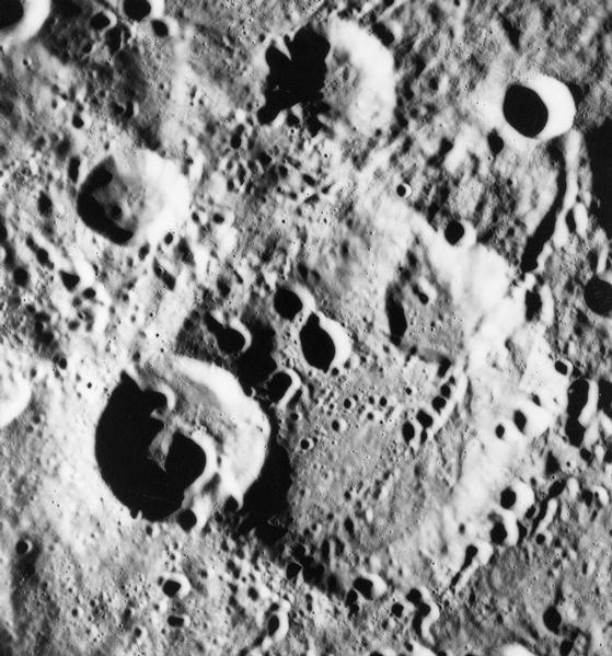 This is an Apollo 15 photograph of the lunar surface from orbit. The frame shows Zhiritskiy crater (lower left) overlapping the western rim of the larger, eroded Zhiritskiy F satellite crater. Note the roughly linear sequence of impact features running from the northwest to the southeast across the floor of Zhiritskiy F. The crater at top-center is Xenophon. This image was taken during the Apollo 15 mapping metric sequence, revolution 50. The picture was produced by rotating the image 90° counter-clockwise so that north is toward the top edge, reducing it in size by 33%, then cropping the image to just show the vicinity of Zhiritsky.